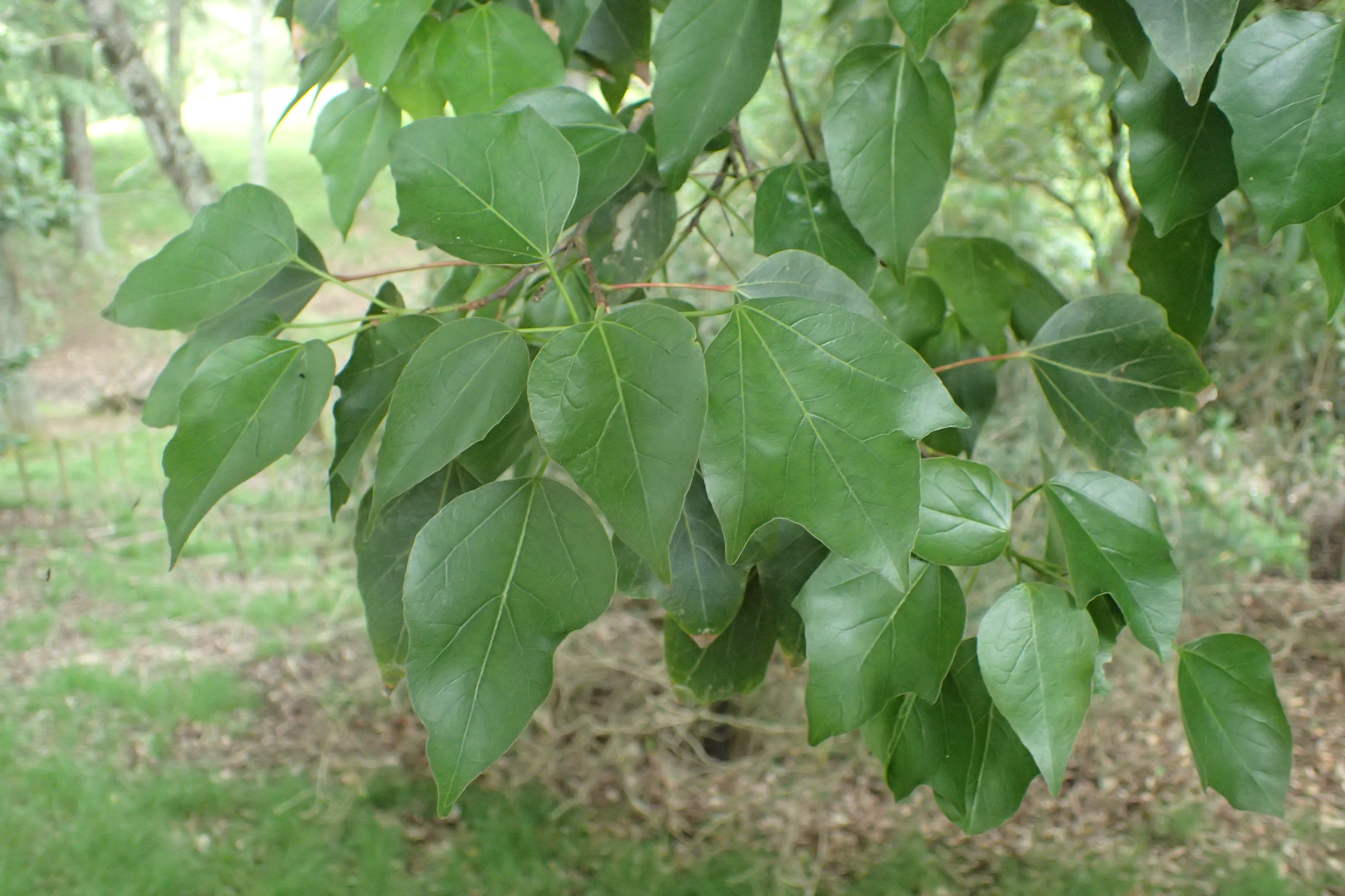 Acer paxii in Hackfalls Arboretum, Hawkes's Bay, NZ